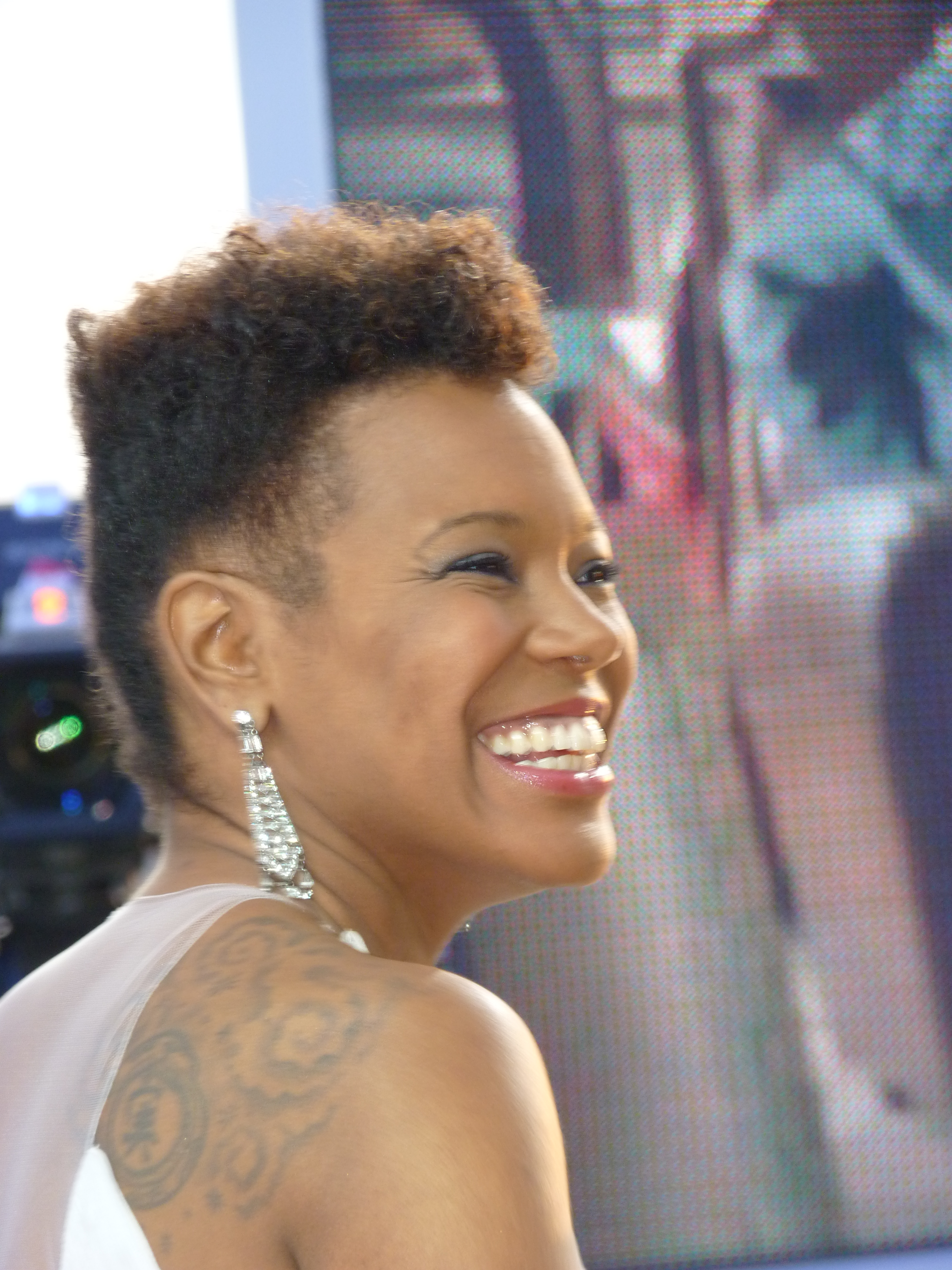 China Moses at the 2012 Cannes Film Festival.